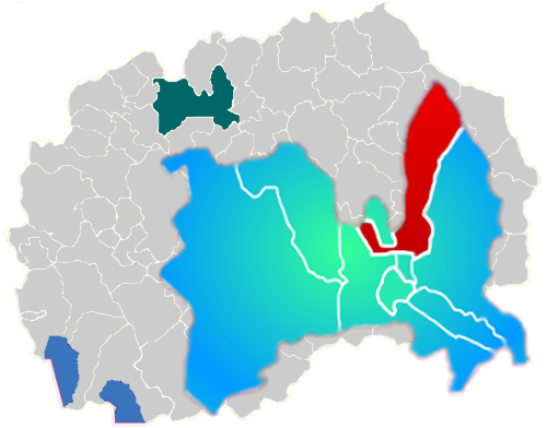 Map of Butel municipality.